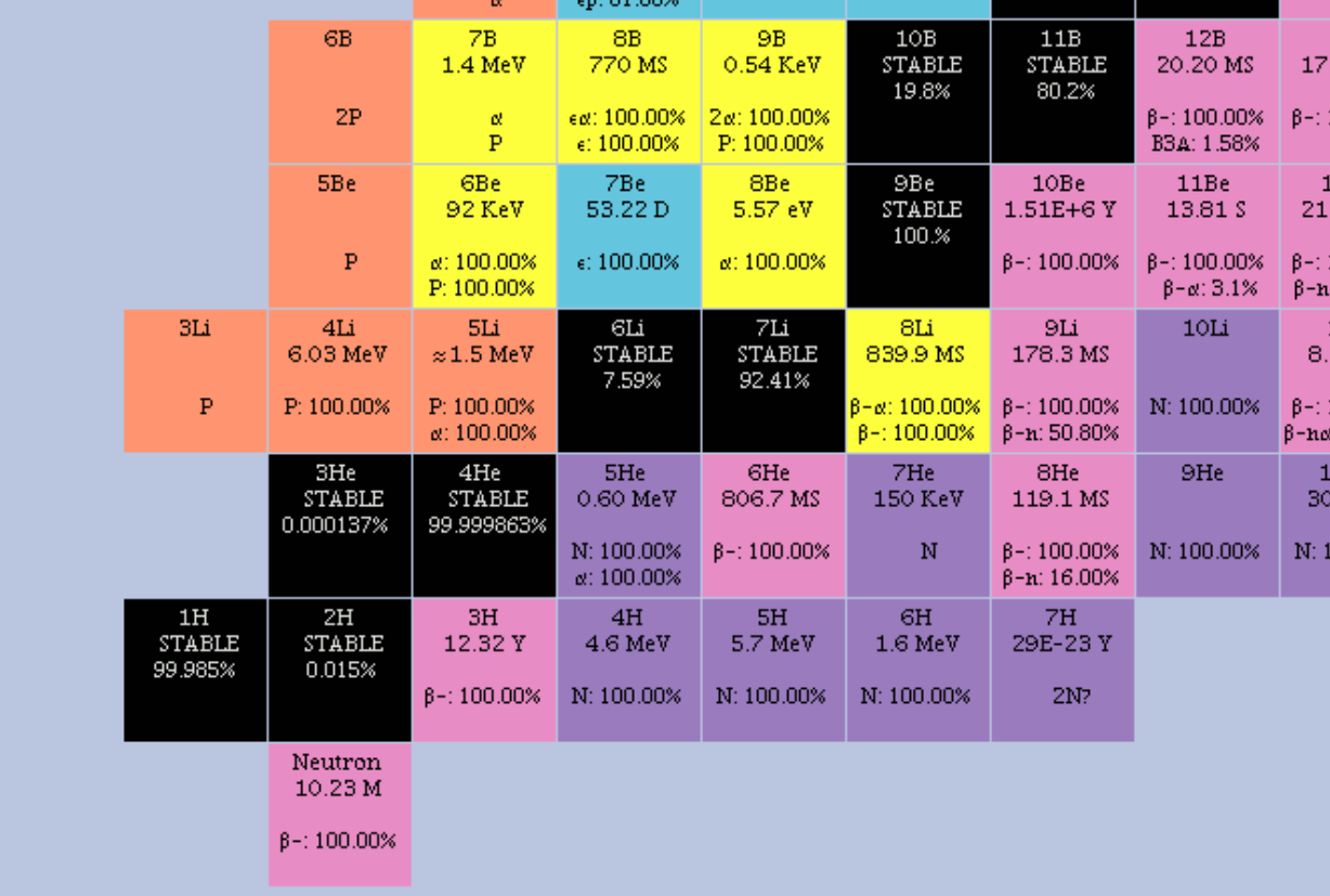 This is a list of stable nuclides from H to Boron. It is derived from another wiki image